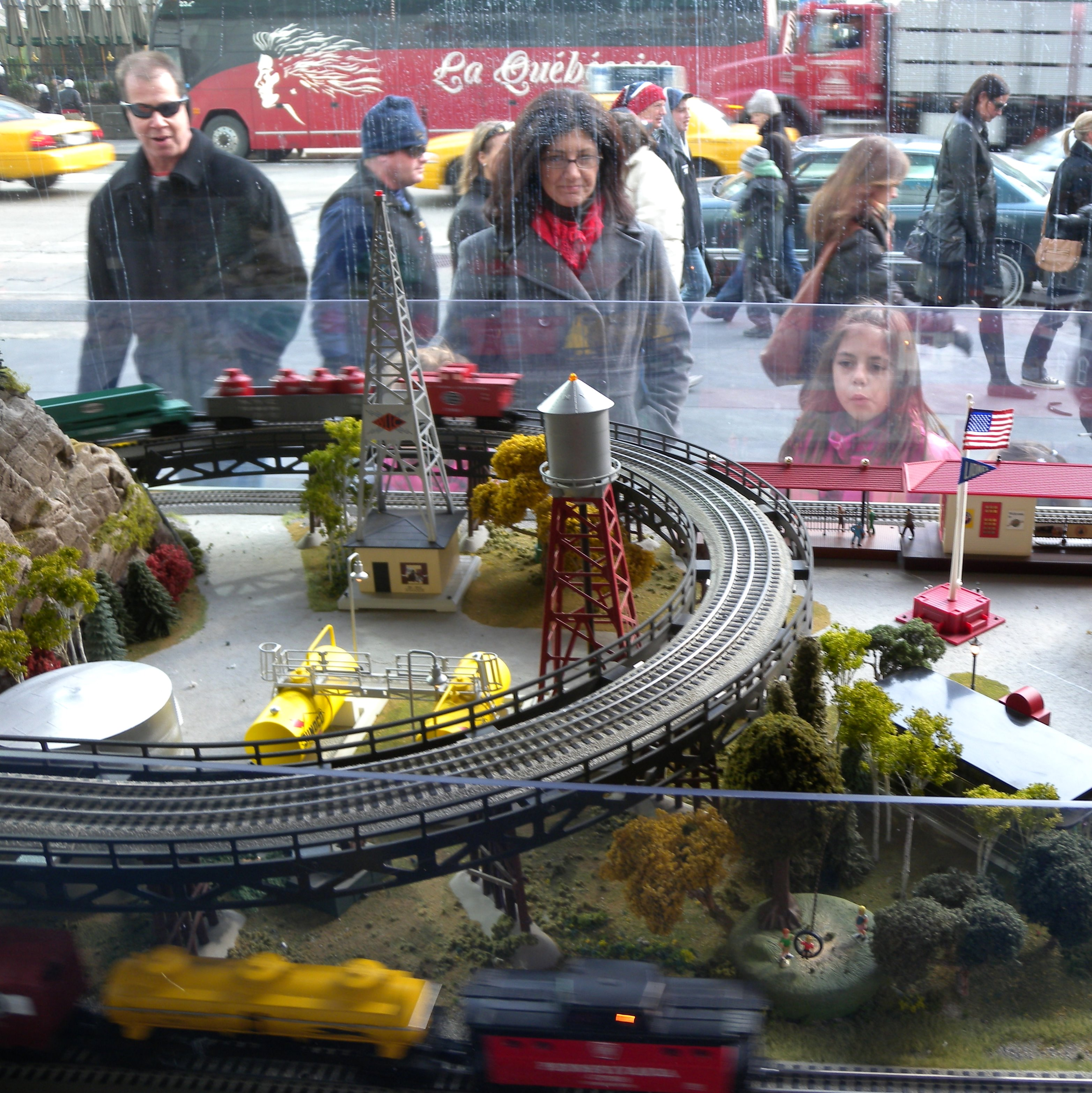 Looking east at O gauge trains running in showcase window of Lionel store at 1095 Avenue of the Americas, New York, New York, United States.